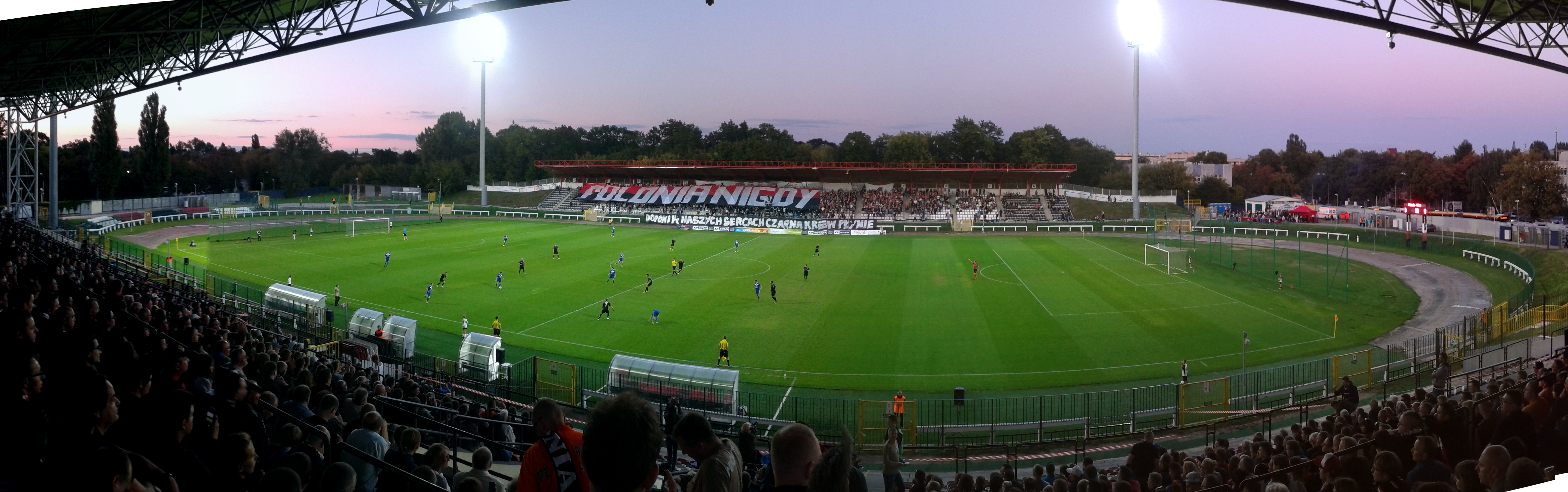 Polonia - Wkra Żuromin, 25.08.2013